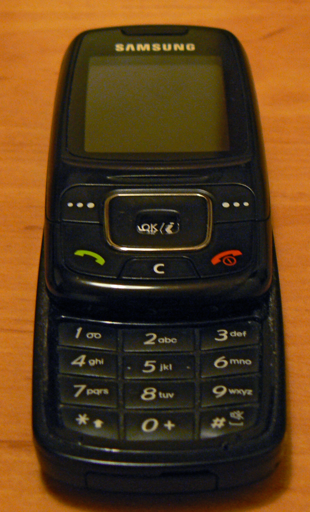 Mobile phone Samsung C300